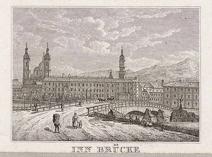 Map of Imperial and Royal Provincial Capital Innsbruck and surroundings: detail Inn bridge viewing citywards